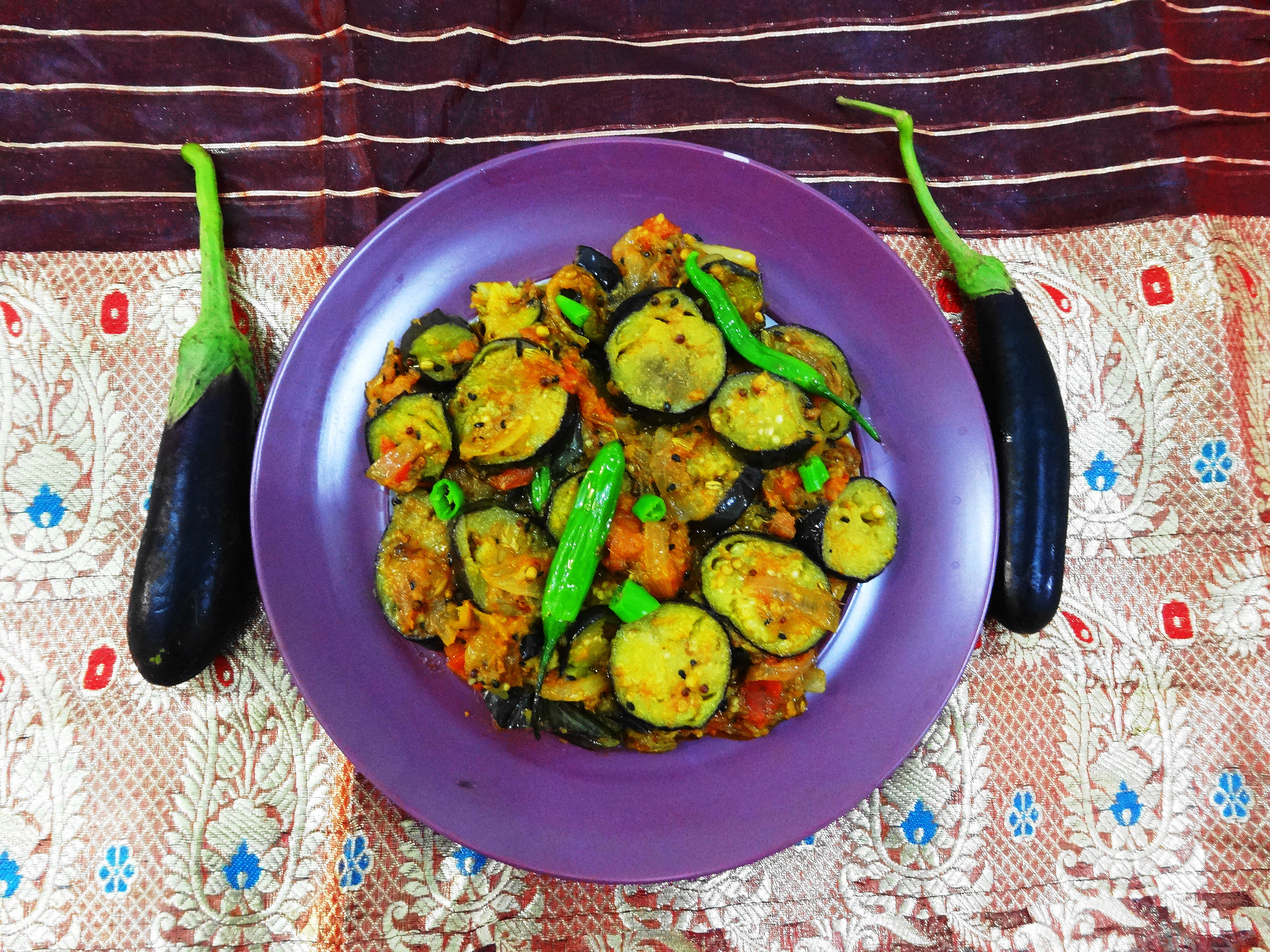 Stir Fried Aubergine, Stir Fried Egg plant, Stir Fried Brinjal,پٹیالہ بینگن